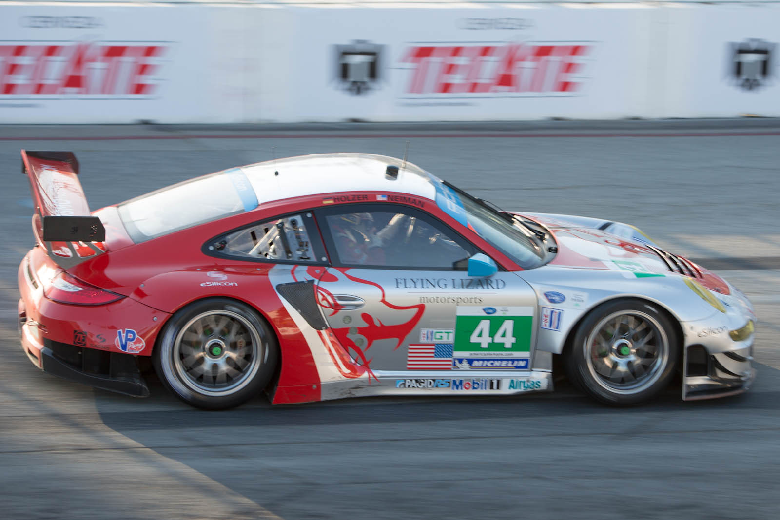 Seth Neiman driving the Flying Lizard Motorsports Porsche 997 GT3-RSR at the 2012 American Le Mans Series at Long Beach.